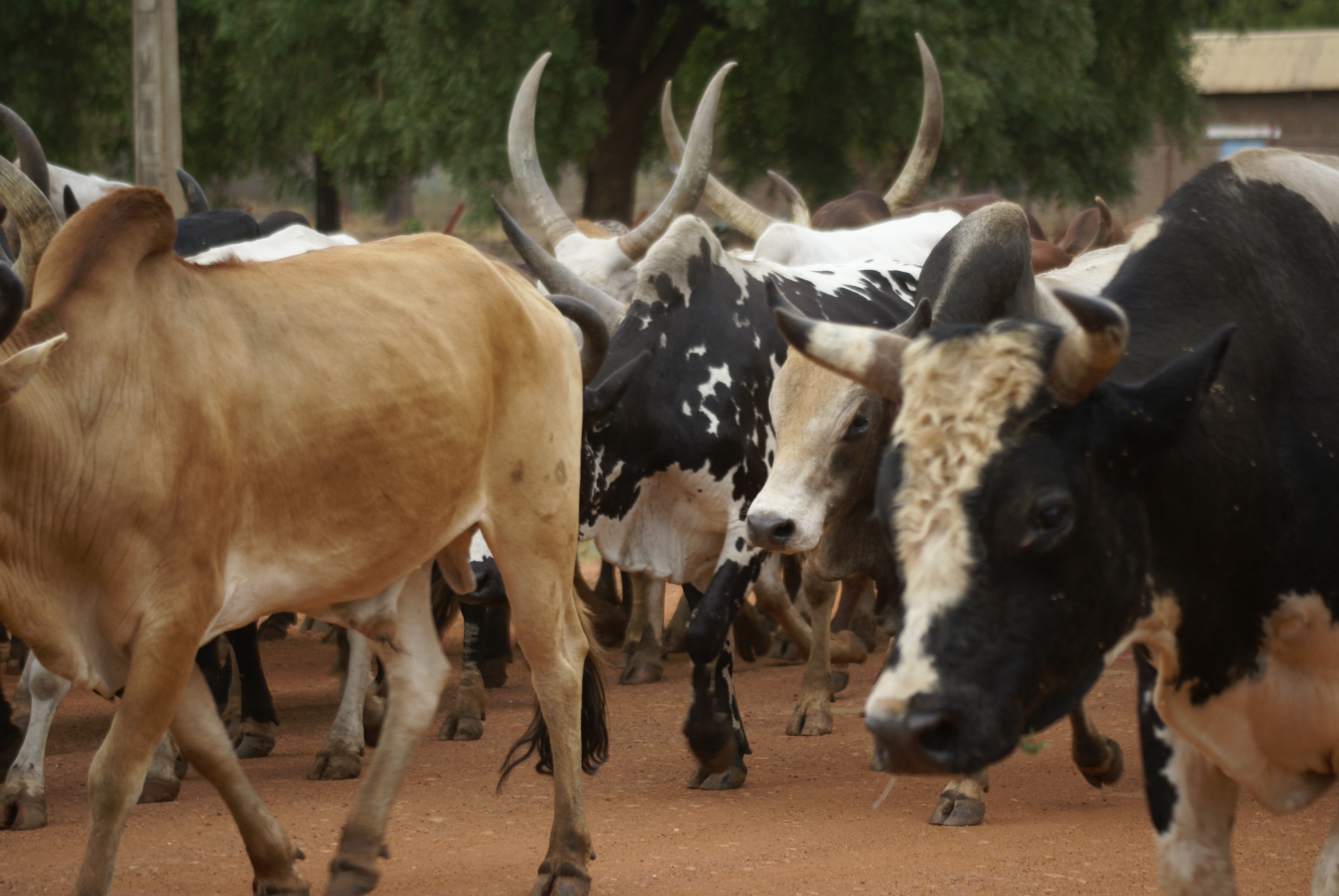 Cattle of the Dinka people in Juba, South Sudan.